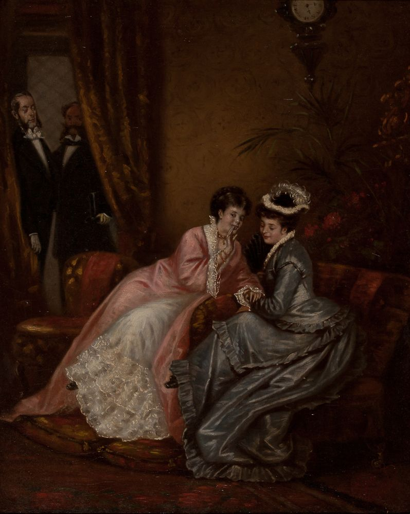 Lupus in fabula: A wolf in the story. Said about someone who has just appeared and it was talked about him.[1]